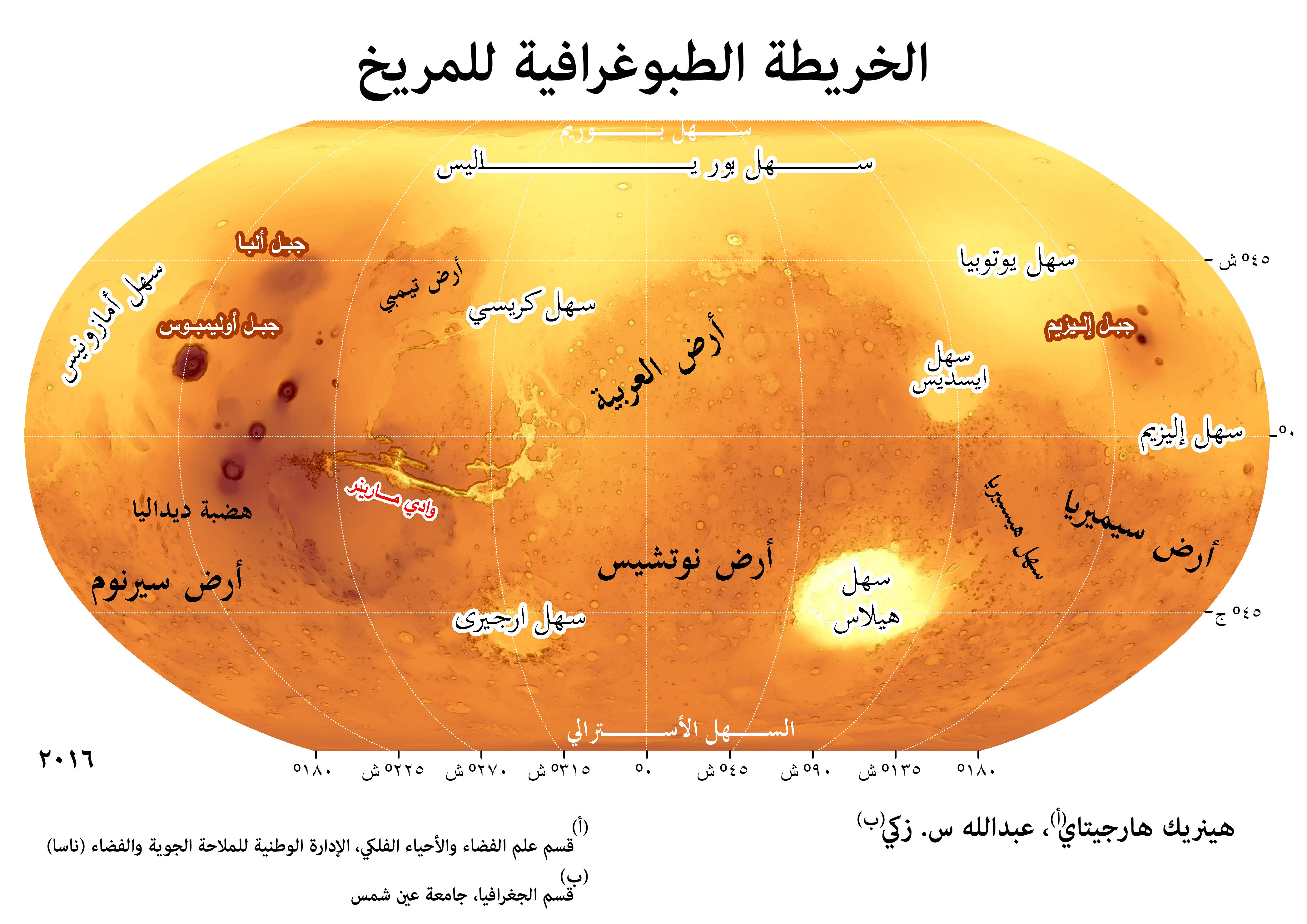 Map of Mars, Arabic nomenclature, MOLA DTM